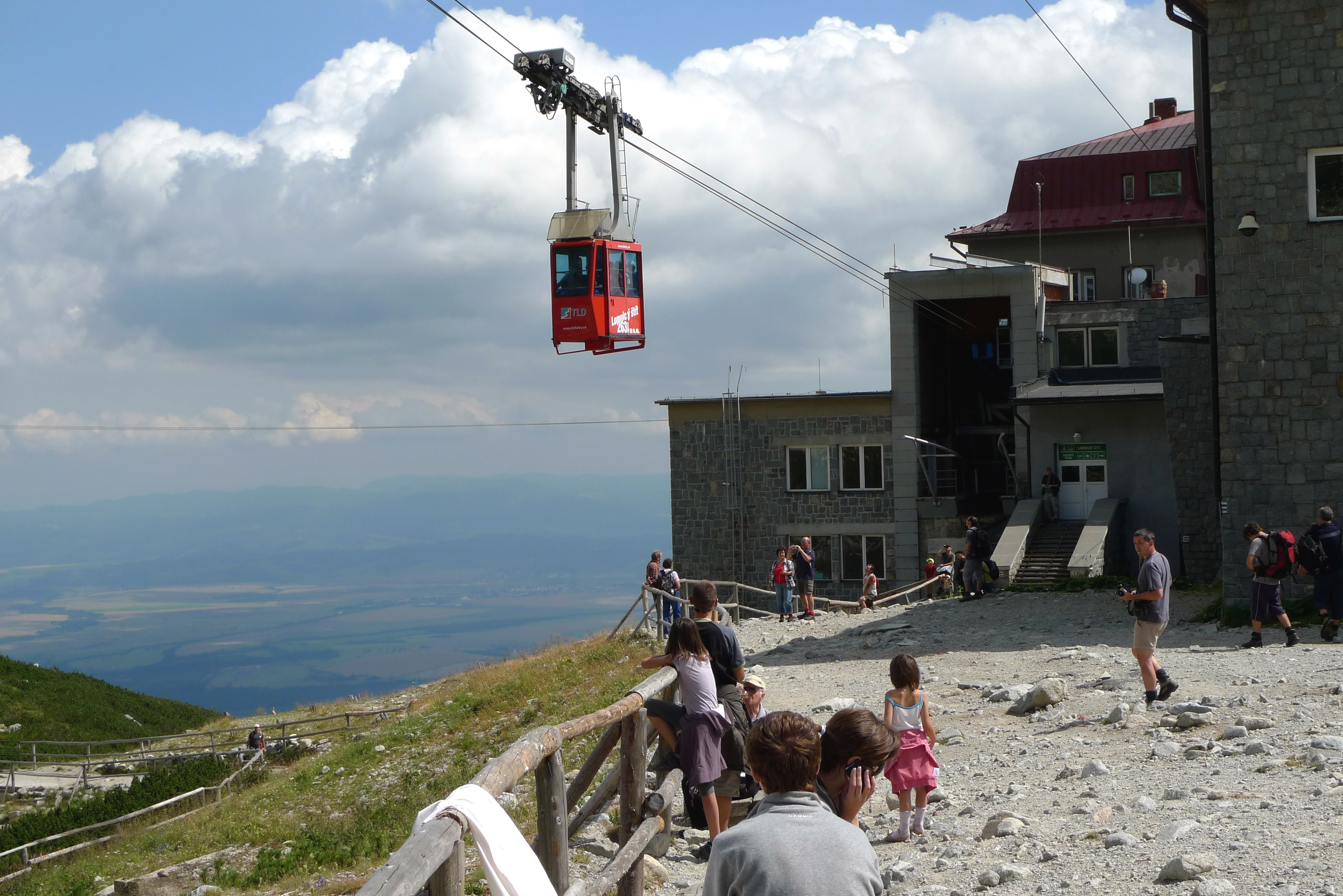 Aerial tramway Skalnaté pleso–Lomnický štít